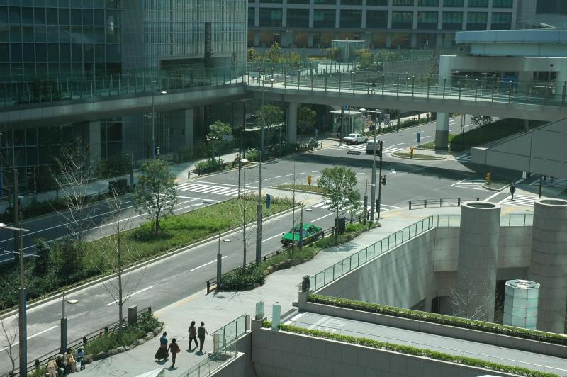 Shiodome, Tokyo, Japan.